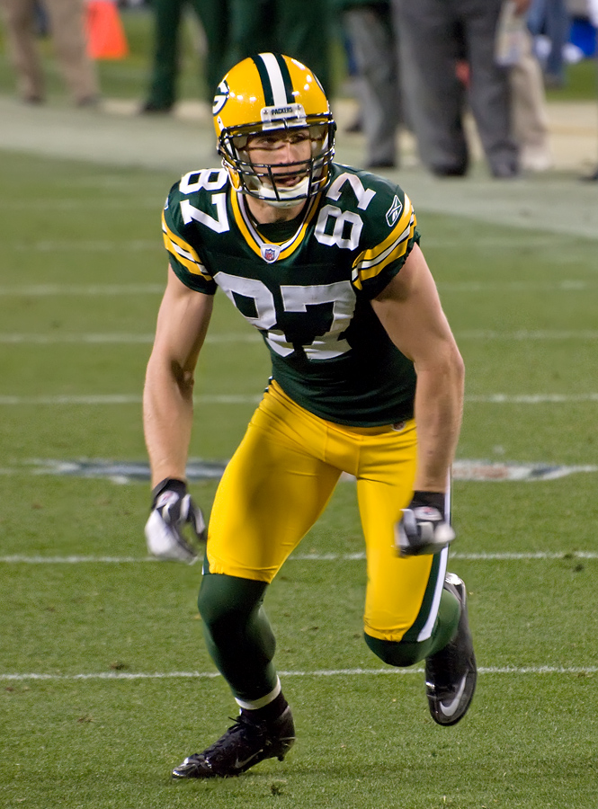 Minnesota Vikings vs. Green Bay Packers at Lambeau Field on Monday Night, November 14, 2011. Photo by Mike Morbeck.